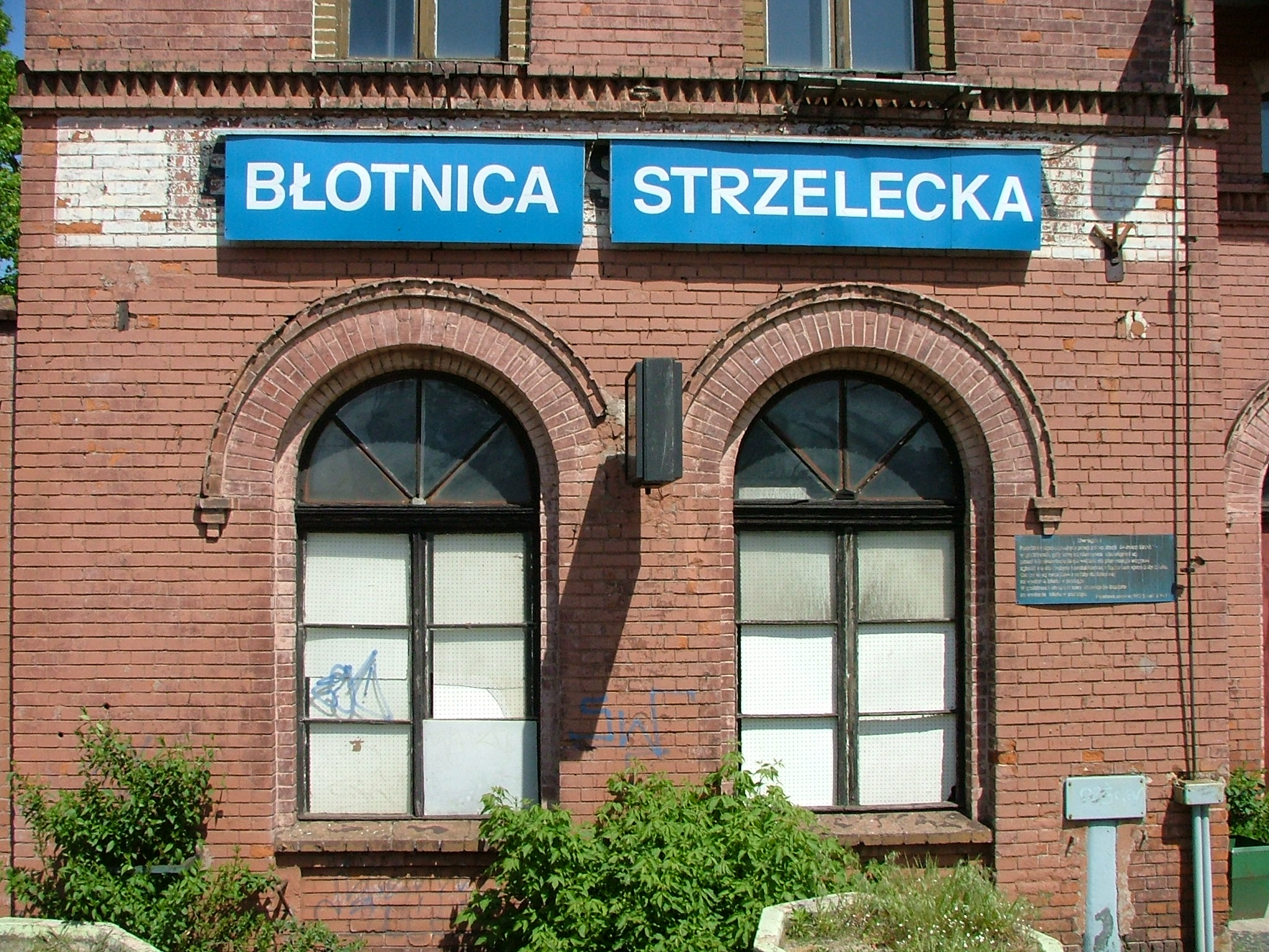 Blotnica Strzelecka - train station.